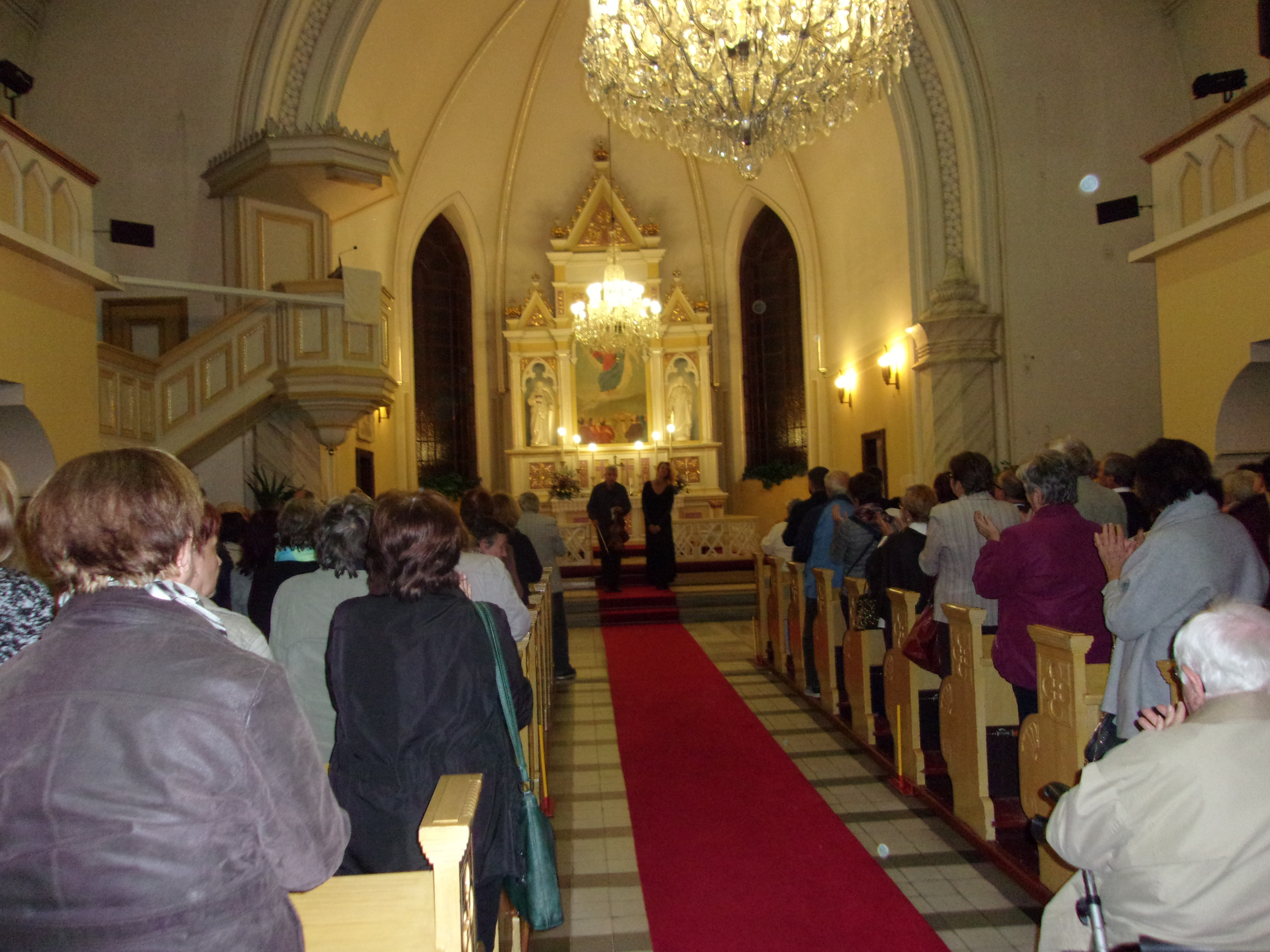 Michaela Káčerková and Jaroslav Svěcený